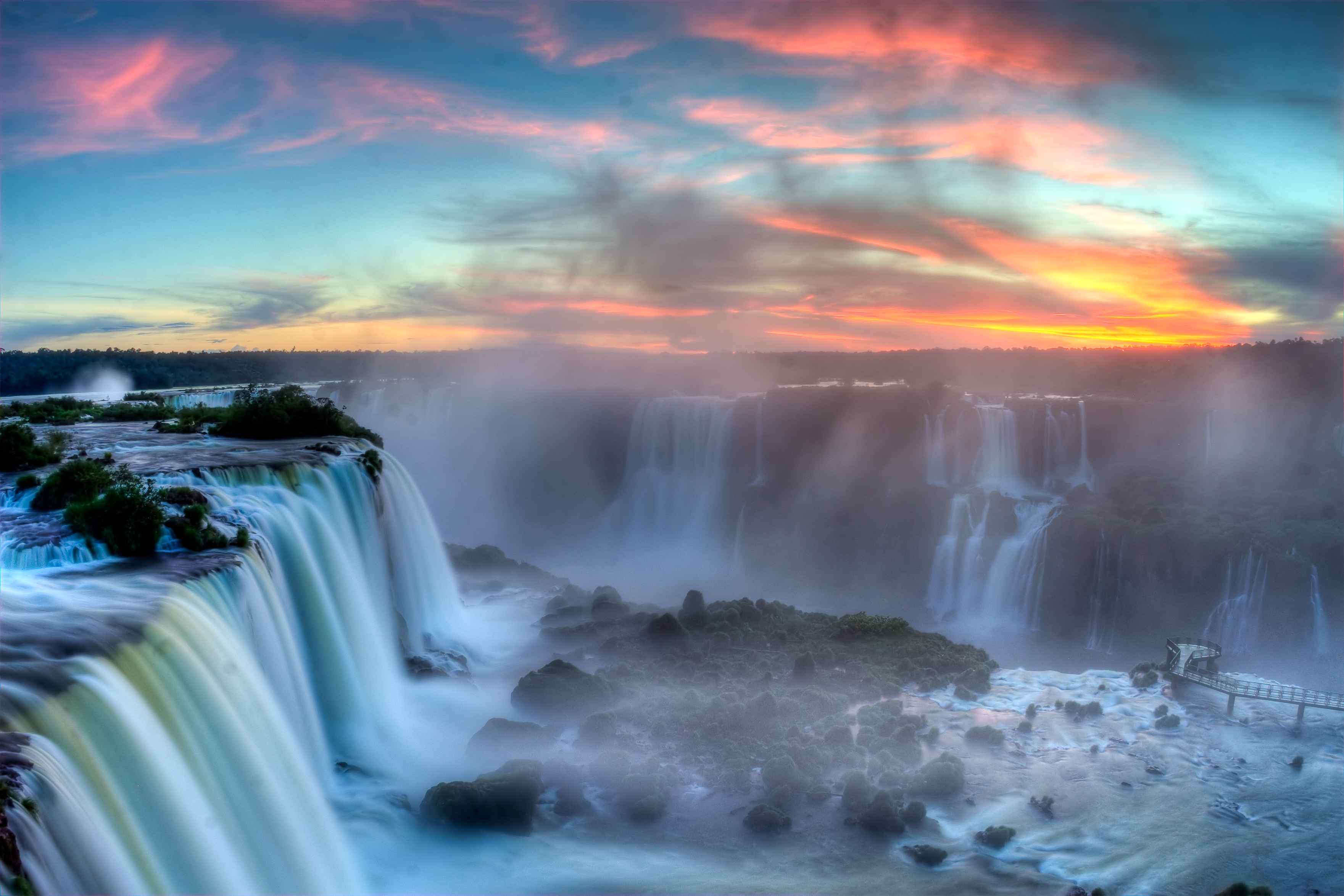 Iguazu Falls, in Misiones (Argentina).